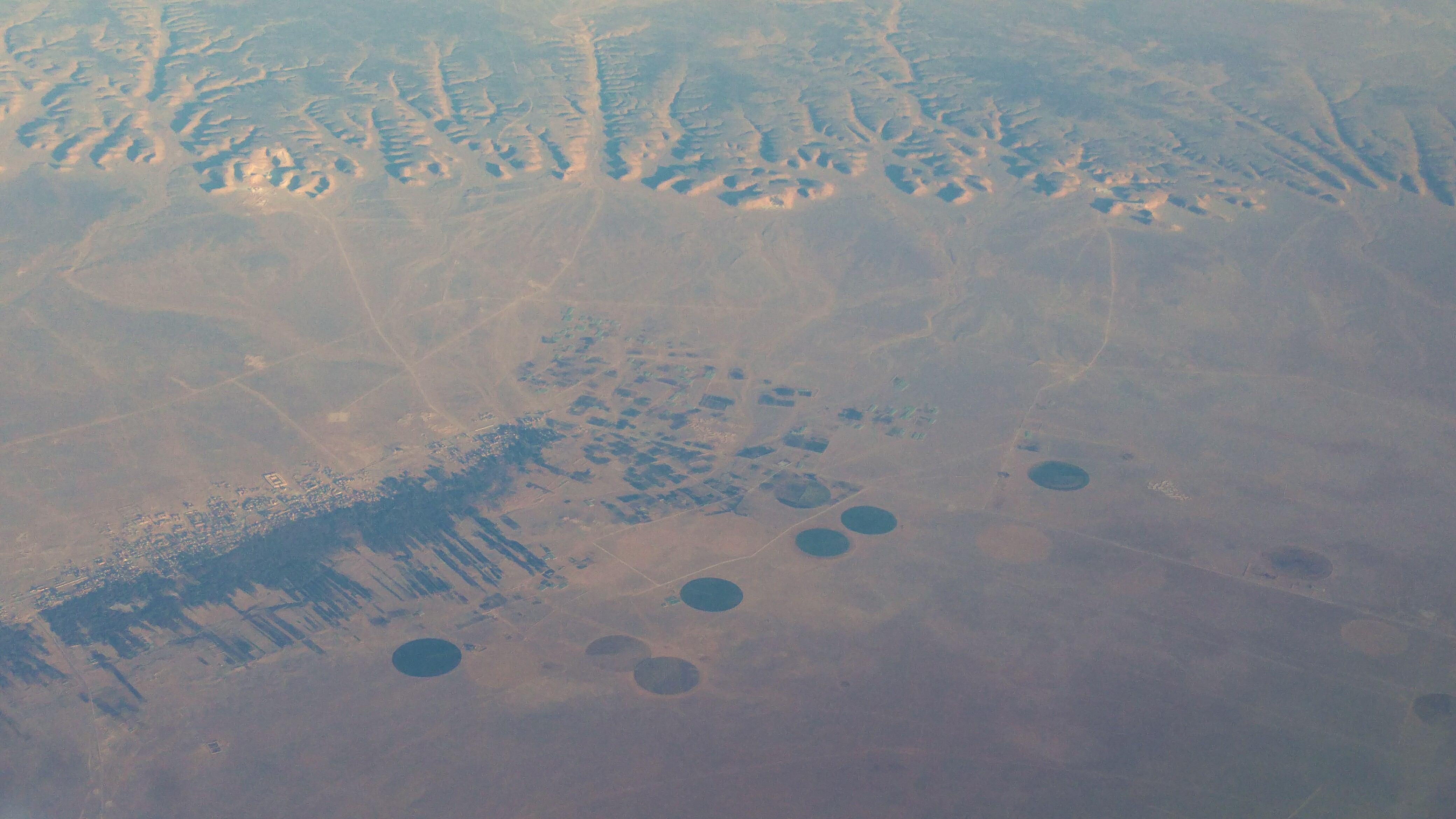 the village of Aougrout seen from above